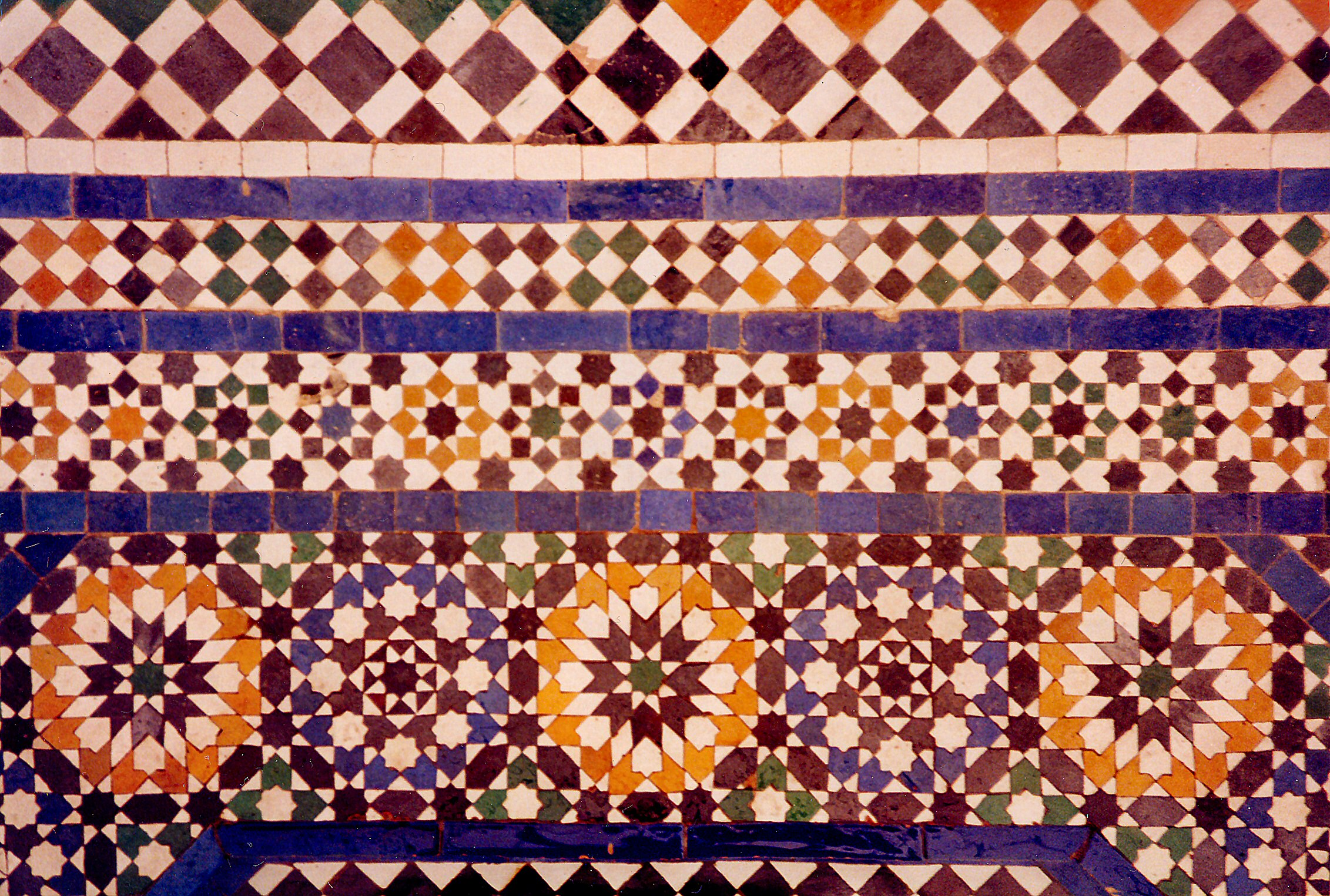 Islamic mosaic — ceramic tile tessellations — in Marrakech, Morocco.